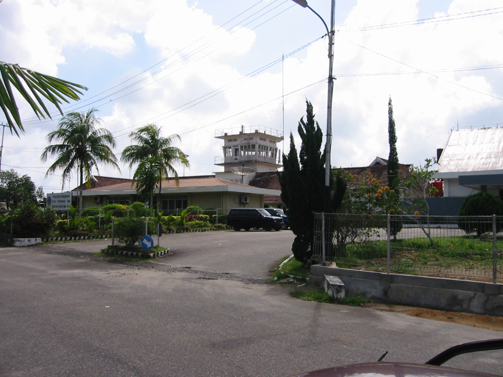 Pangkal Pinang Airport